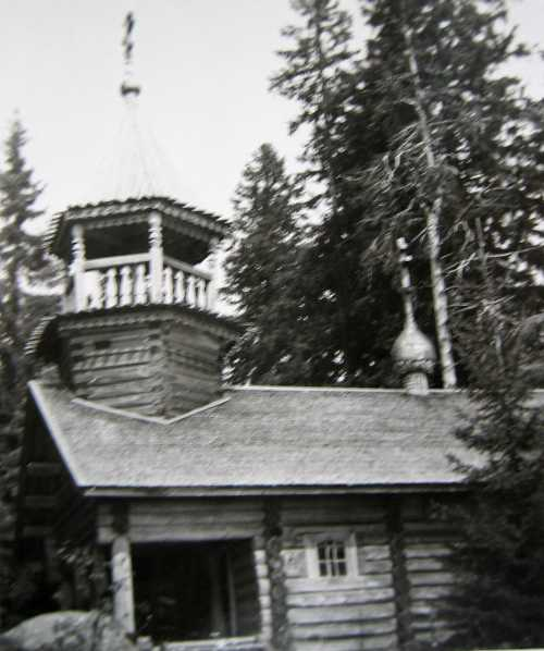 Ägläjärvi orthodox chapel before Winterwar